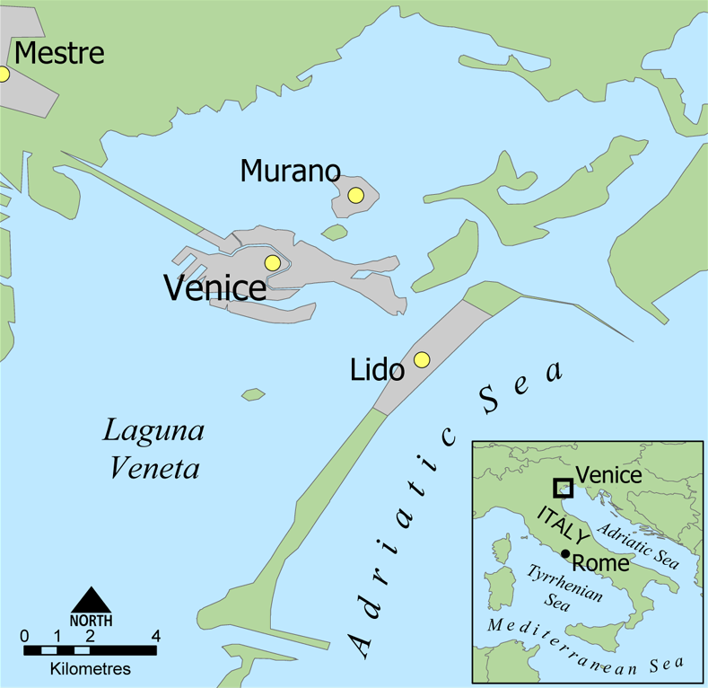 A map of the Venetian Lagoon (Laguna Veneta) and the surrounding cities of Venice, Murano, and Lido.